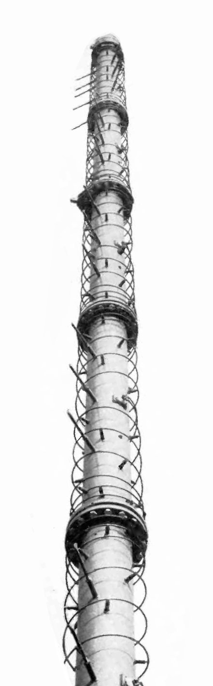 A normal-mode helical antenna for UHF television broadcasting, from an advertisement in a 1954 magazine. It consists of a helix of wire around a supporting mast, supported on standoff insulators. This type of antenna was widely used in the first television stations broadcasting in the UHF band, from 470 to 890 MHz, in the 1950s, and is still used. The antenna is divided into vertical "bays"; five are visible in the photo. Since the feed voltage is progressively delayed in phase as it progresses up the helical wire, without correction the radio waves radiated by each portion of the antenna would be out of phase with other portions, reducing the gain. So the antenna must have "phase shifters" at intervals up the pole (located at the joints between the bays) which correct the signal to each bay so it is in phase with the other bays. These consist of metal contact rings encircling the pole; to change the phase of a bay the helical radiator is rotated. Wire stubs can be seen sticking out from the antenna at top. These are quarter-wave directional stubs which are used to modify the omnidirectional radiation pattern of the basic antenna to give it more gain in directions where more audience coverage is needed. The vertical line of posts seen sticking out of the center of the mast are foot brackets for climbing the pole. Each bay has a gain of approximately 5 (7 dB). Information from NAB Engineering Handbook, 6th Ed., National Association of Broadcasters, 1975, p. 354, 370